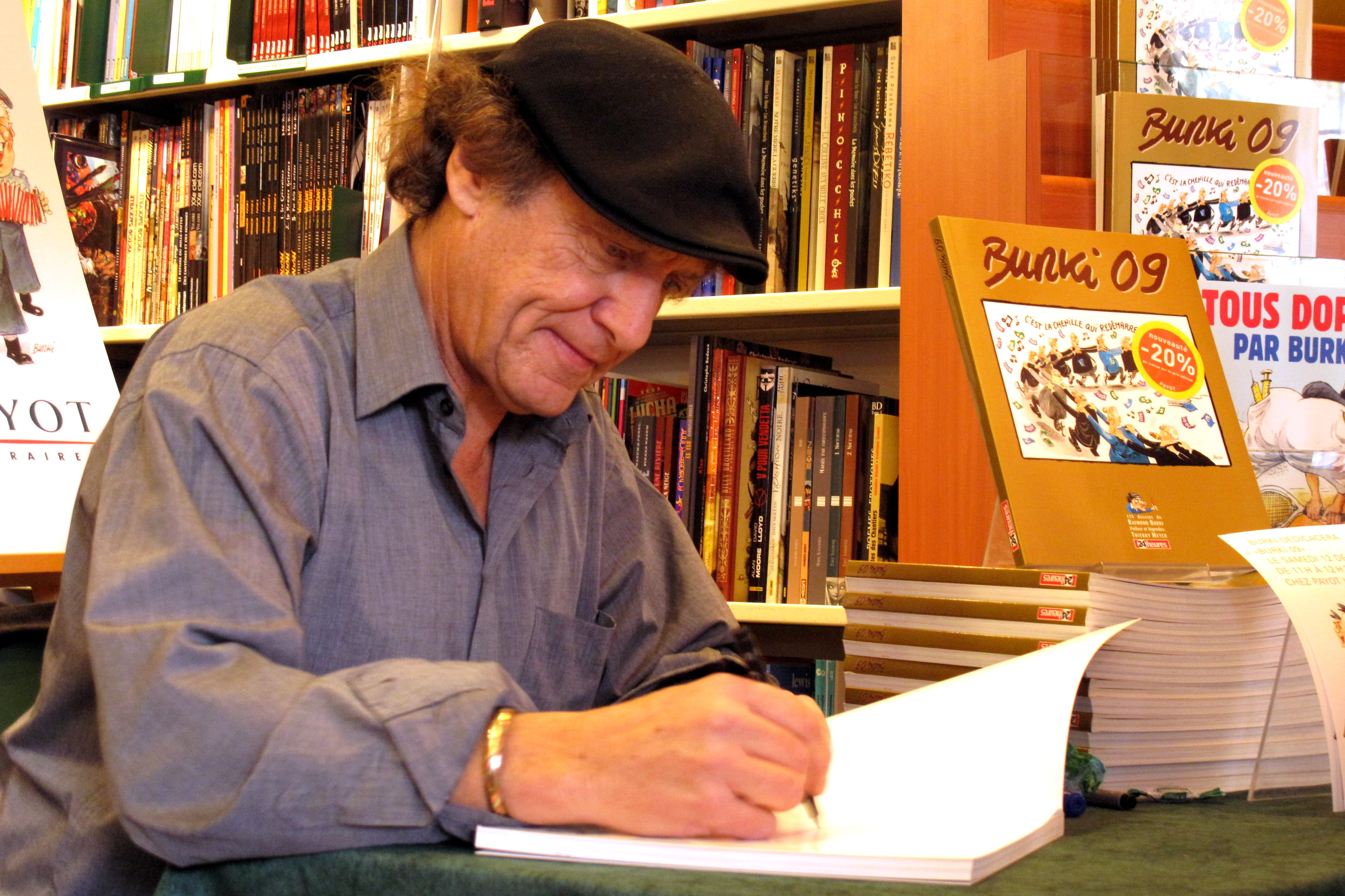 Raymond Burki signing books in Lausanne